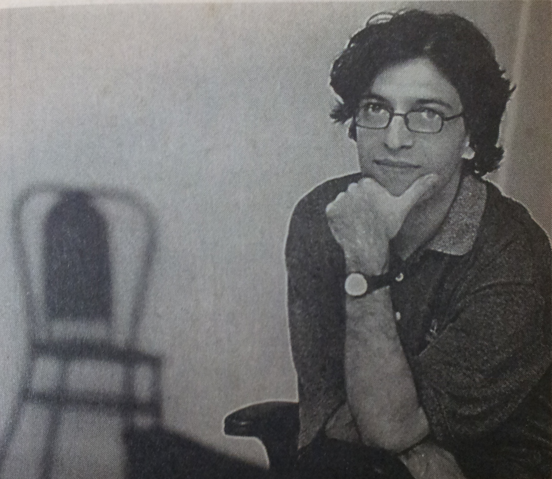 kambiz